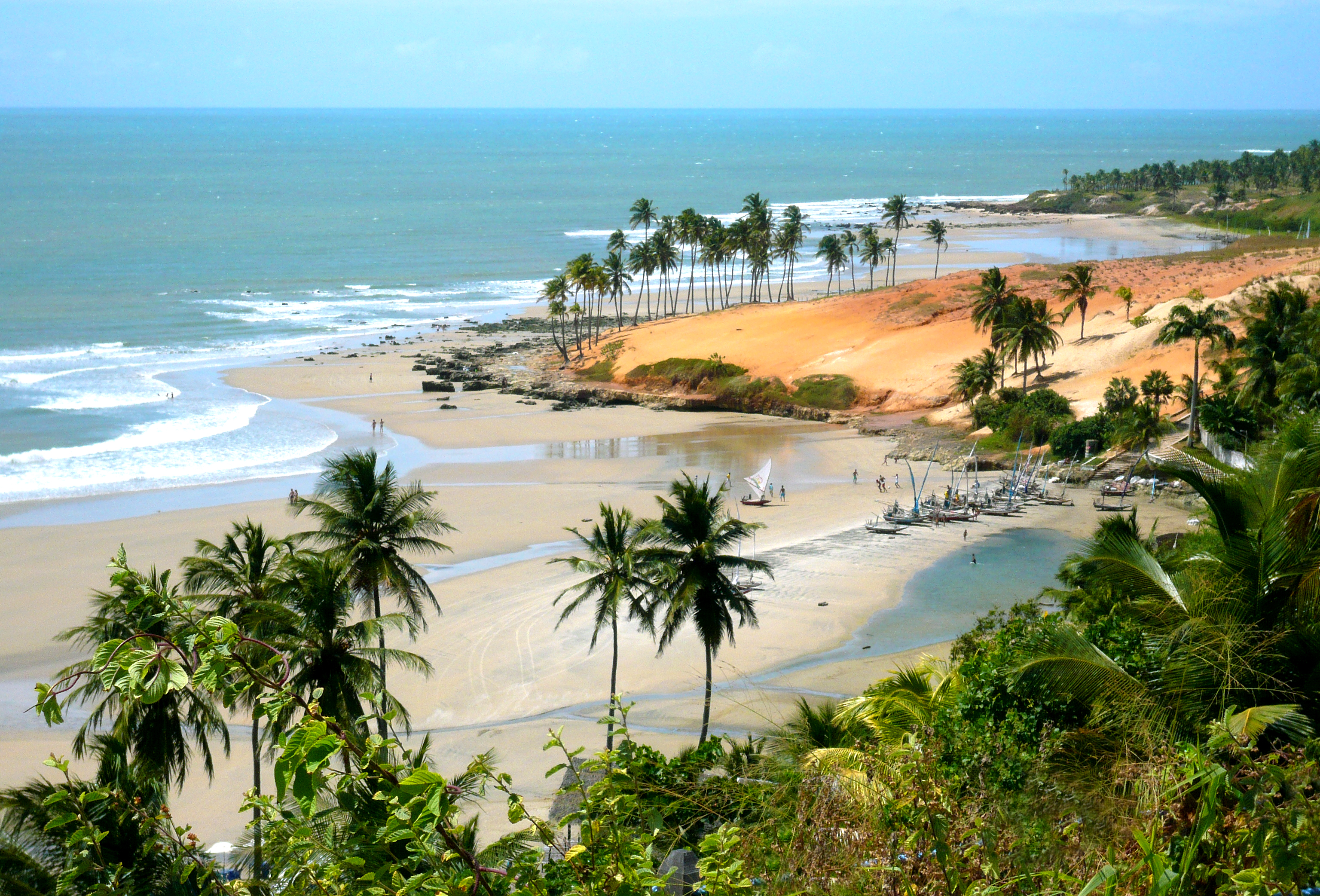 Lagoinha Beach, Paracurú, Ceará, Brazil